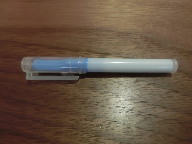 Image of Kinnen-paipo